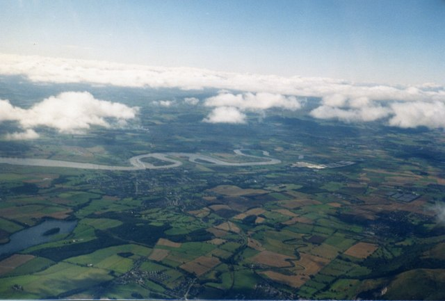 The Forth Valley near Alloa, near to South Alloa, Falkirk, Great Britain. Meanders of the River Forth at Alloa, photographed from a glider. The body of water at the left is Gartmorn Dam. The obvious island, just to the left of the centre in the Forth, is Inch, the promontory to the right is Rhind, and used to carry a railway across the river to the south. The small island to the right [west] of Rhind is Tullibody Inch.